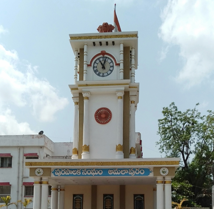 Village's clock tower